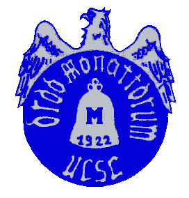 Ordo_Monattorum.logo